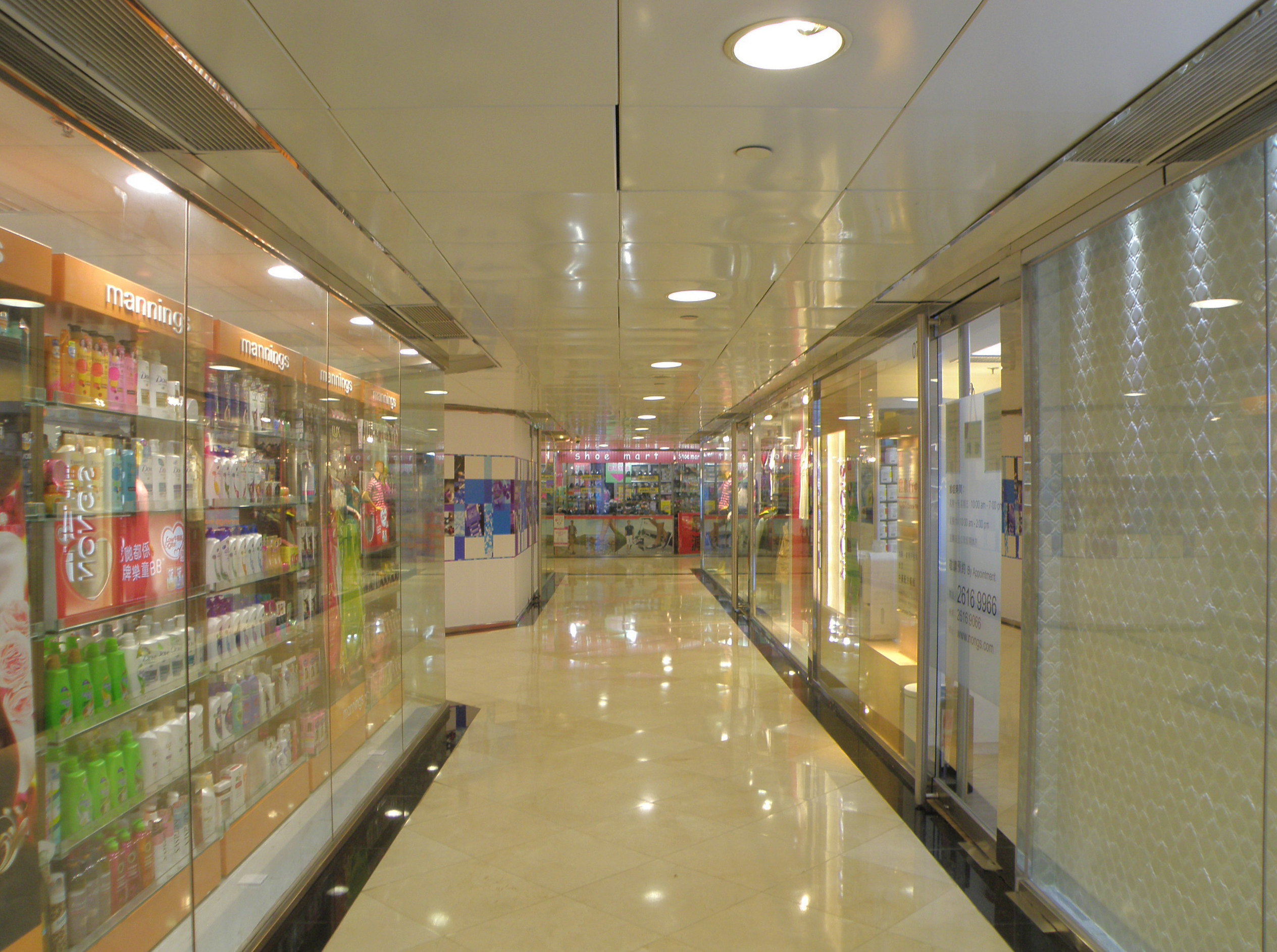 New Kowloon Plaza in Tai Kok Tsui, Hong Kong.